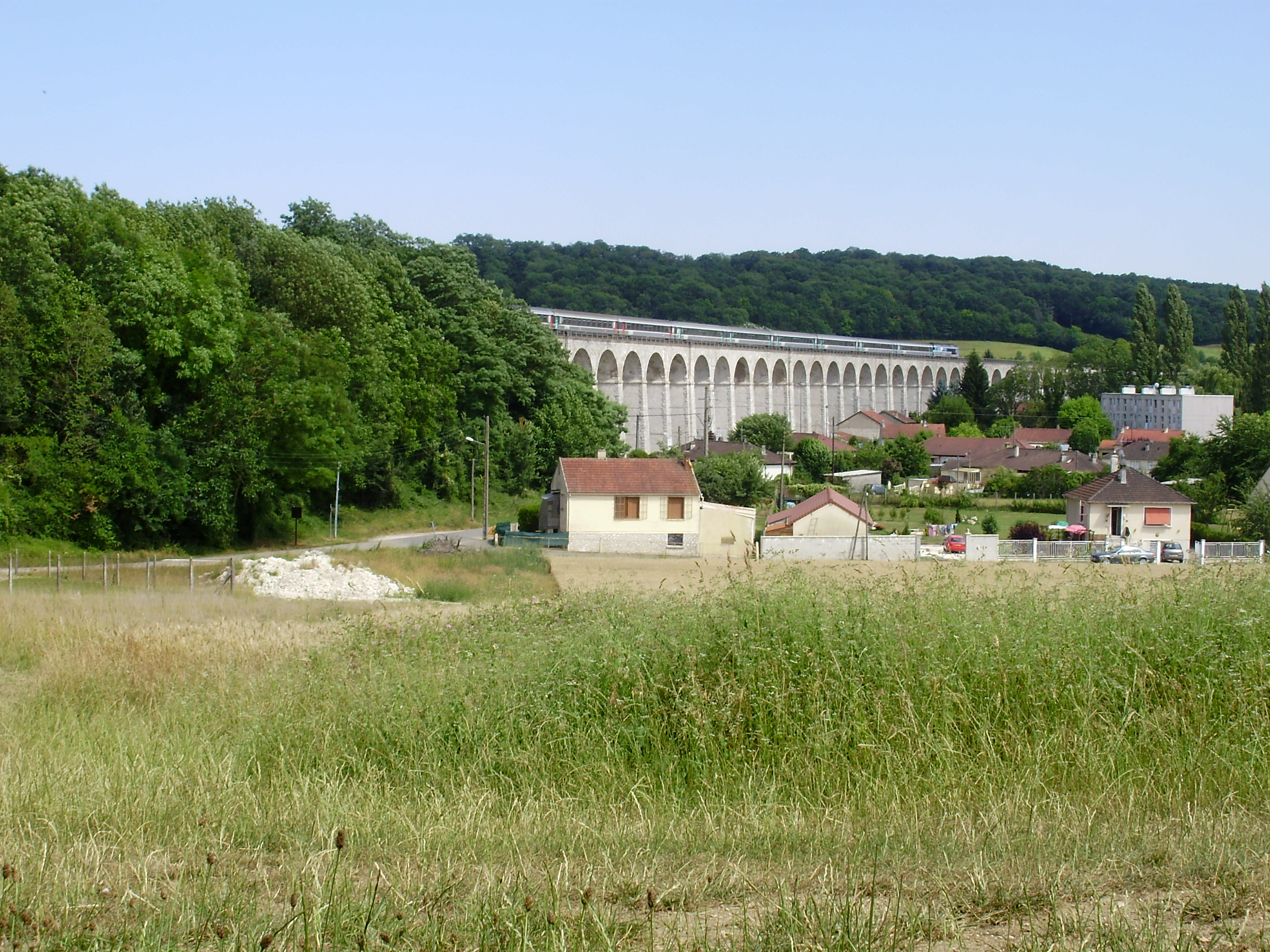 Railway bridge of Longueville, Seine-et-Marne, France with a main line train going towards Troyes, Aube (on the right, south-east)